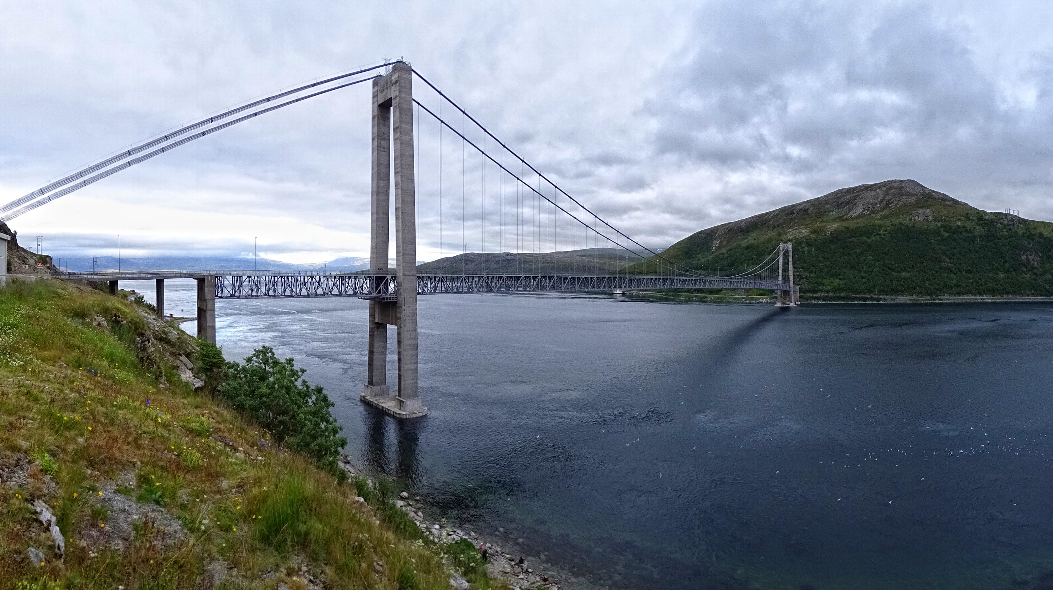 Kvalsund Bridge photographed from the northern side.